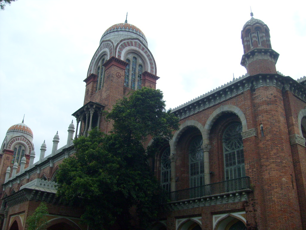 Front view of the Senate House, University of Madras